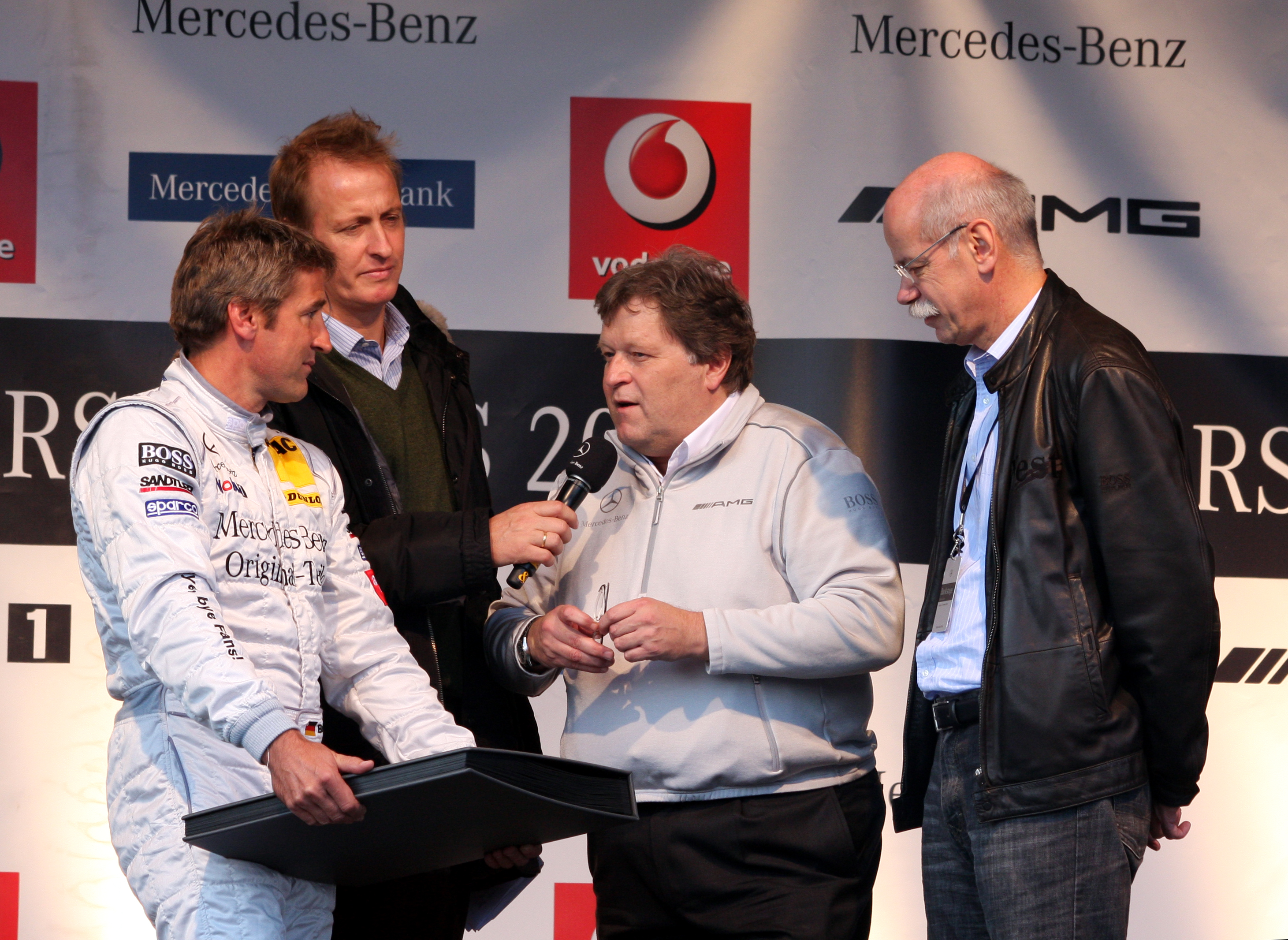 Bernd Schneider at Stars & Cars 2008 together with Florian König (interviewer), Norbert Haug (President in charge of all Mercedes-Benz motorsport) and Dieter Zetsche (Chairman of Daimler AG).